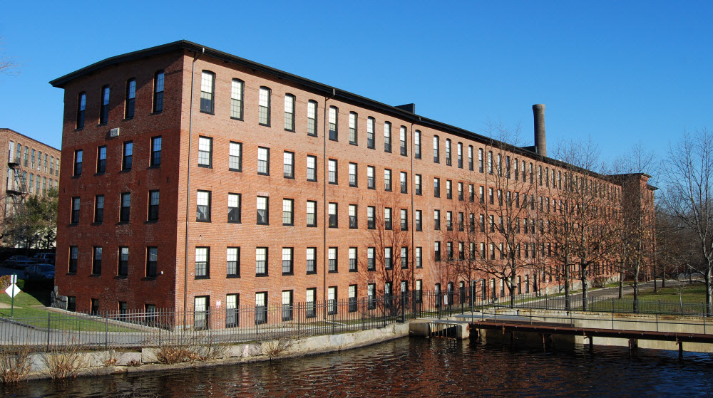 Boston Manufacturing Company Mills, Waltham, Massachusetts. A National Historic Landmark.